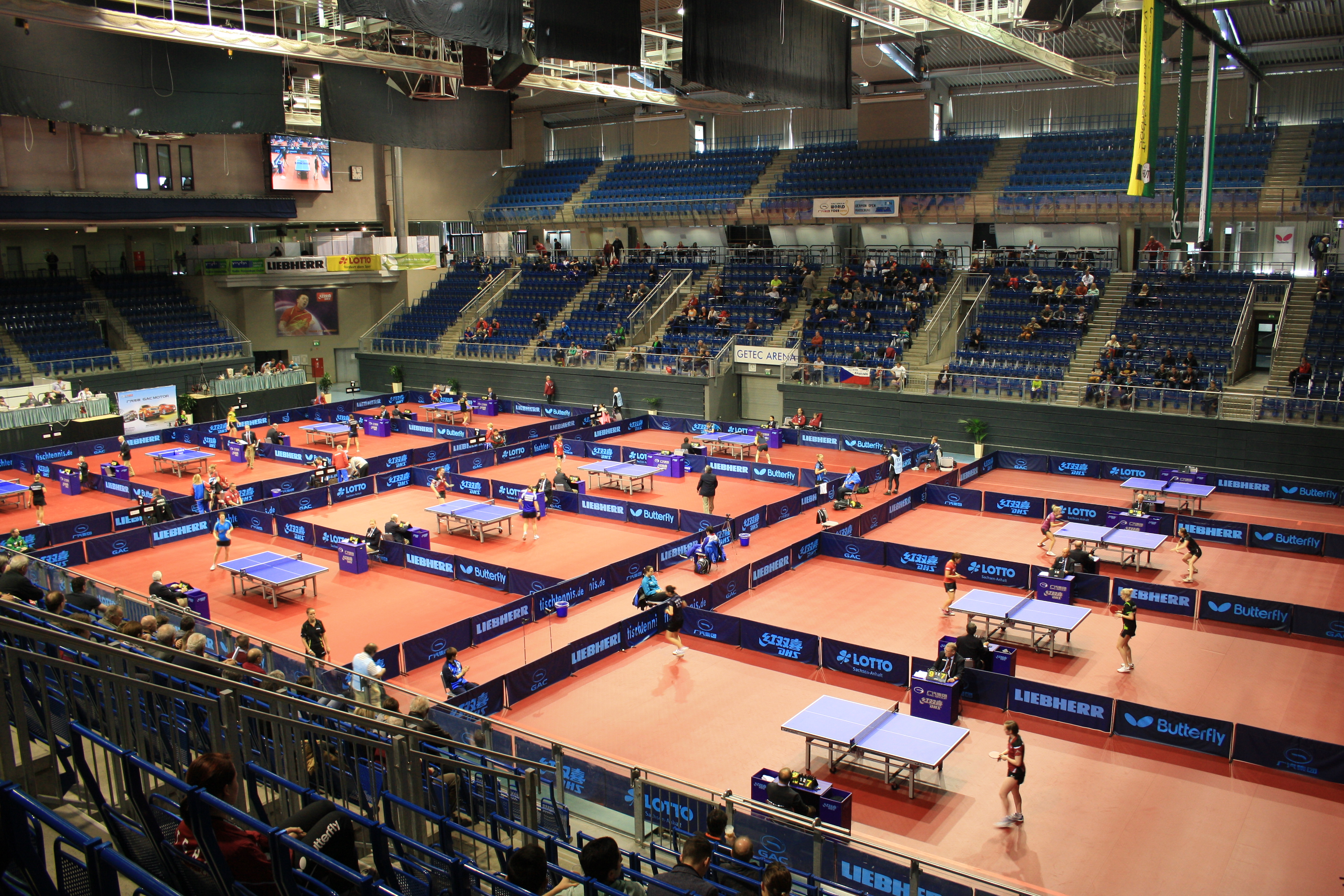 Table Tennis German Open in Magdeburg, Germany